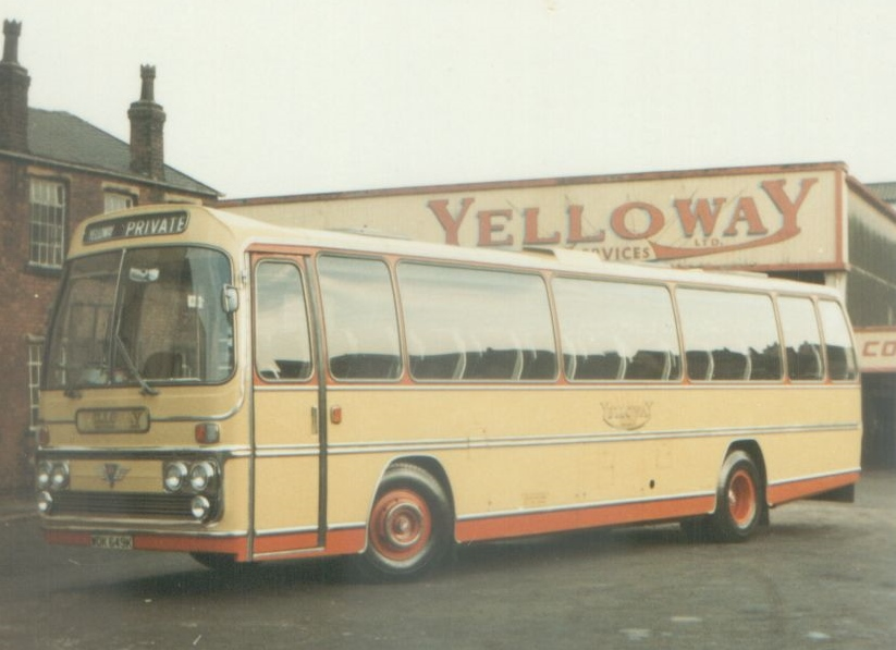 A Yelloway coach beneath the garage sign at Rochdale - Sept 1972